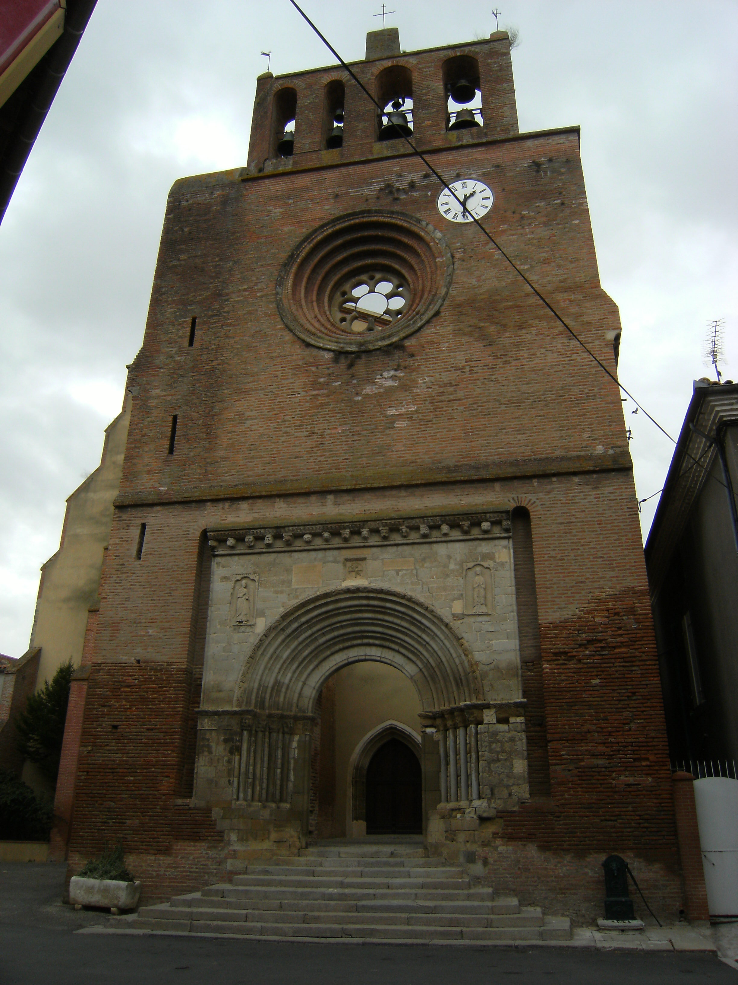 Facade of St Saturnin church in Belpech, Aude.